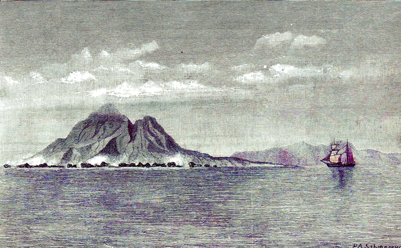 Straat Soenda met de Sebesi